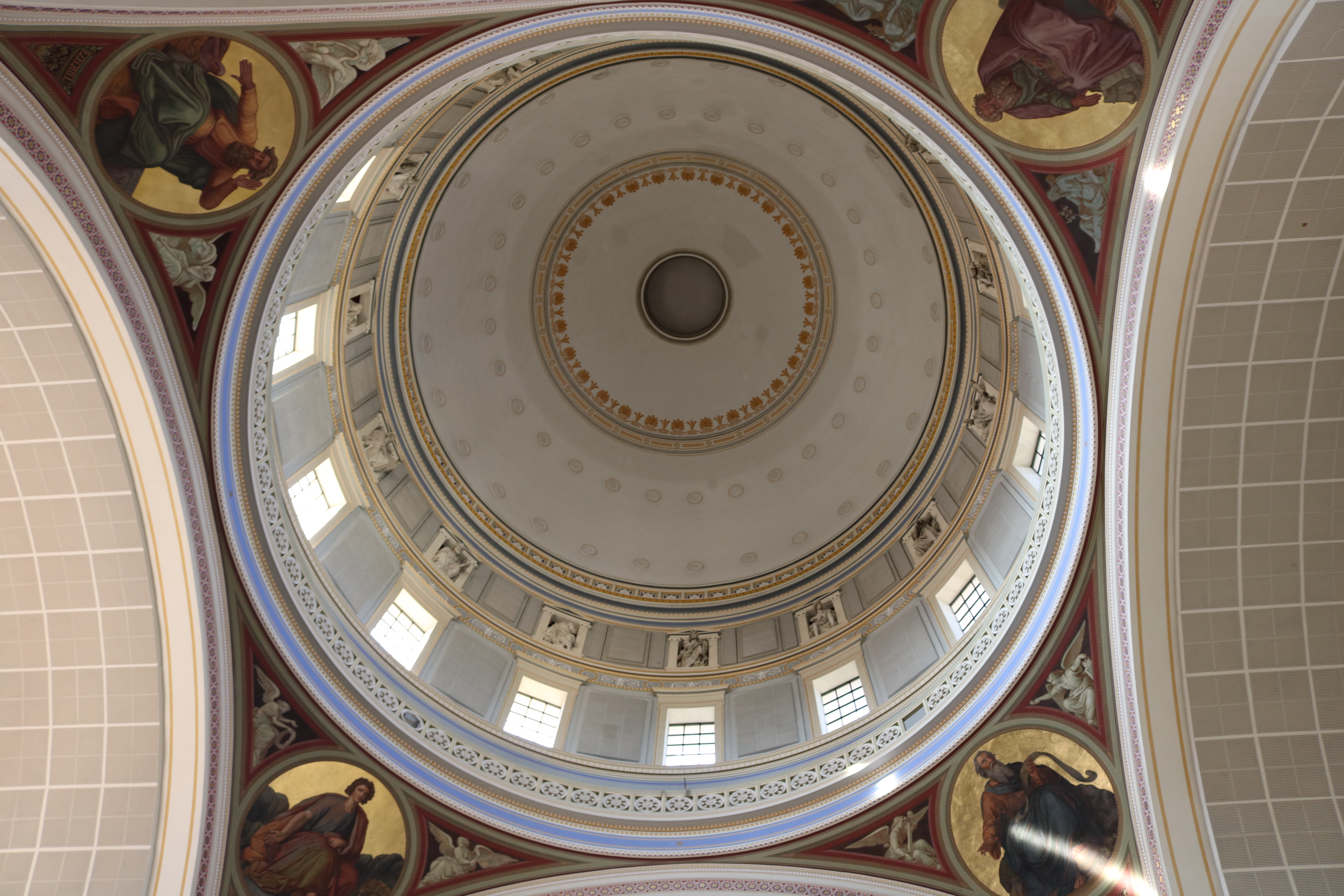 Dome of St. Nicholas' Church in Potsdam from inside. April 2018